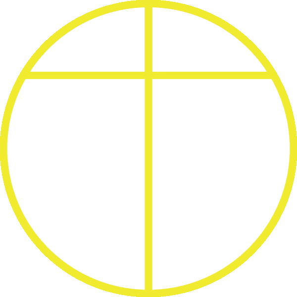 The seal of Opus Dei. A cross inscribed in a circle: the Cross embracing the world - sanctity in the middle of the world.